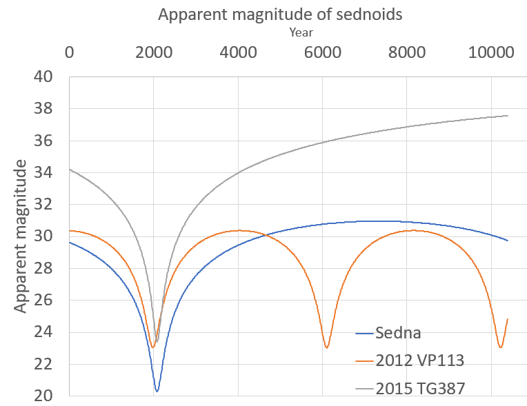 Sednoid apparent magnitudes over 11000 years